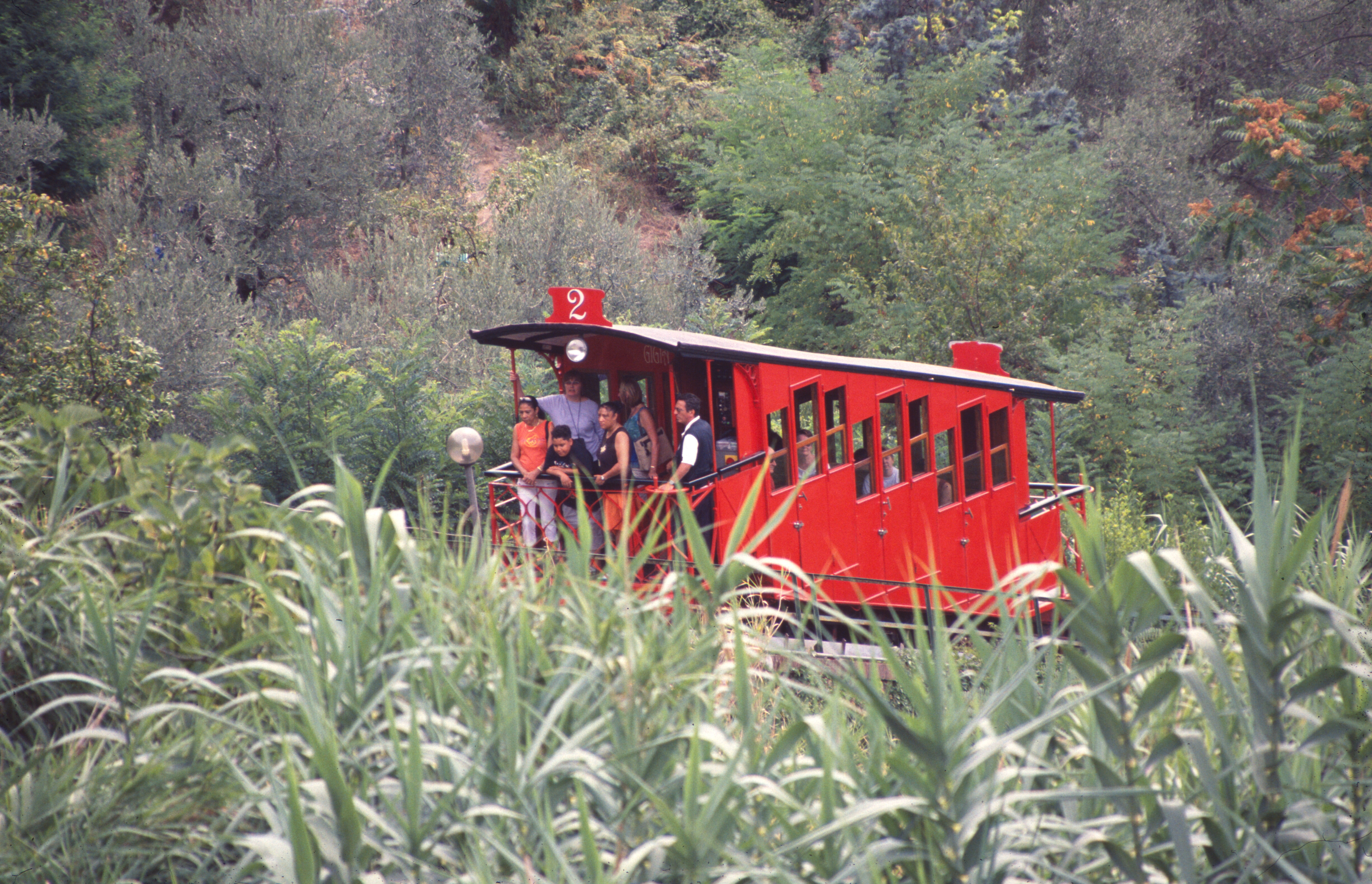 Looking back from Montecatini Alto, the next train coming up.